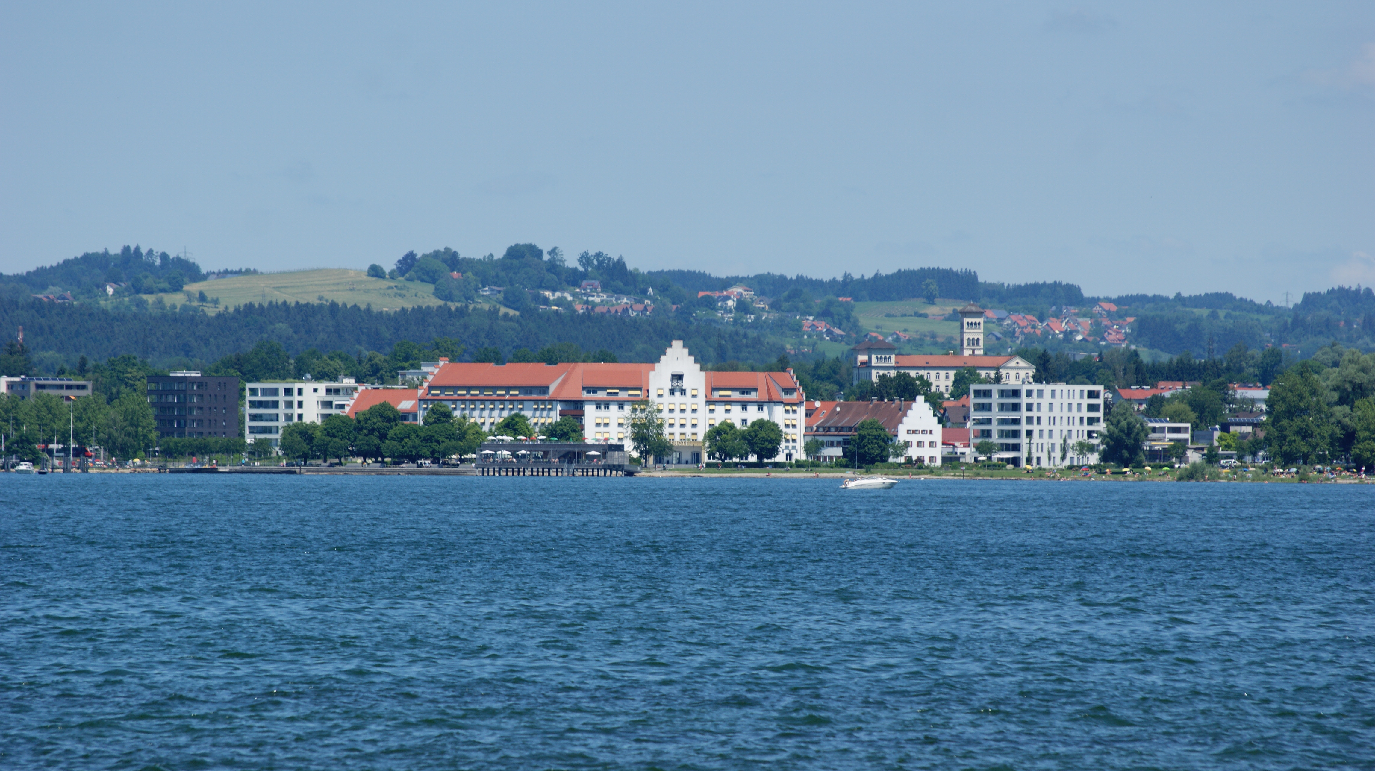 View from Bregenz (Vorarlberg, Austria) to the Seehotel "Am Kaiserstrand" (Hotel at the "emperor beach" at the Lake Constance) in Lochau.